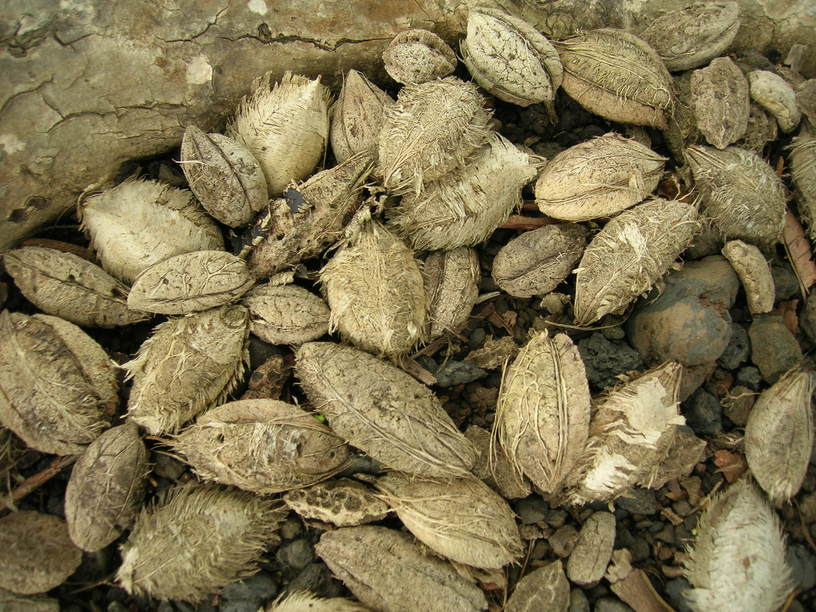 Terminalia catappa (seeds). Location: Maui, Waianapanapa